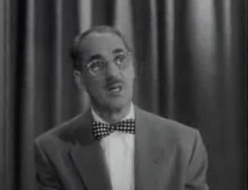 Groucho Marx in the '50s quiz sow "You Bet Your Lif".